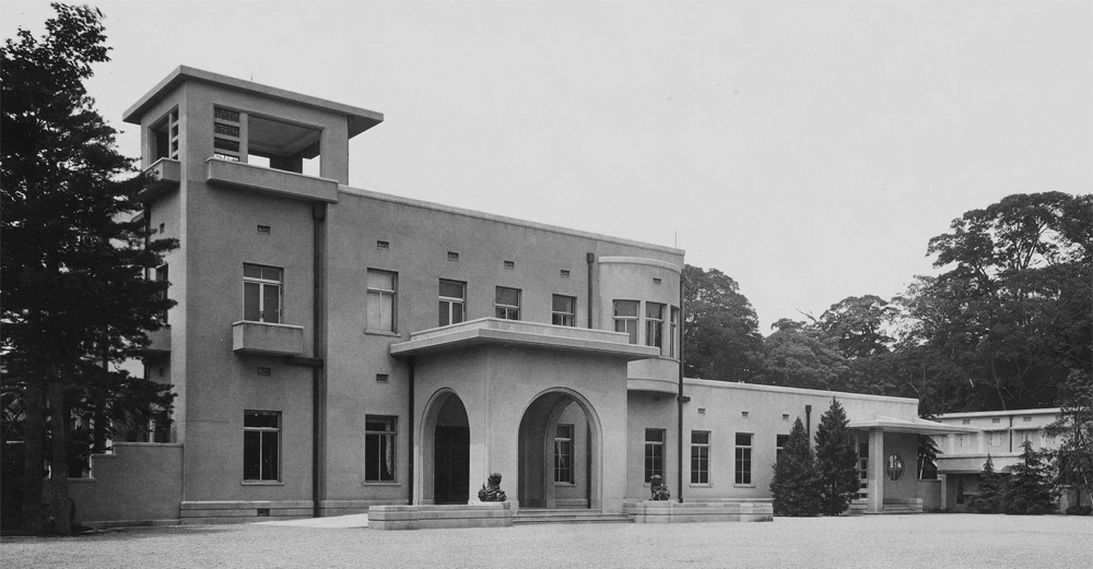 The Prince Asaka Residence at its completion